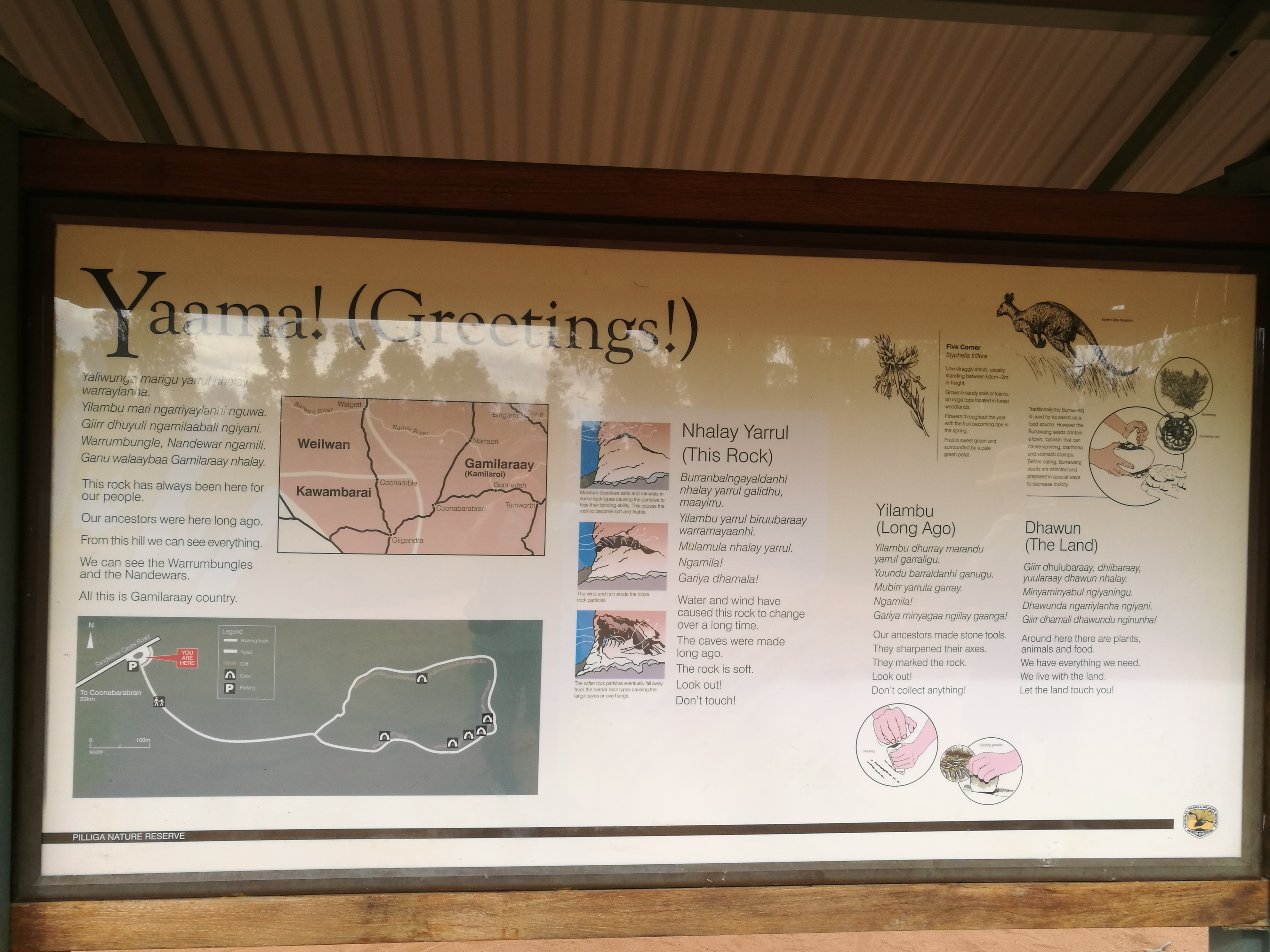 NSW National Parks and Wildlife Service notice board at the entrance to the Sandstone Caves in Pilliga Nature Reserve, greeting visitors and interpreting the reserve in the Gamilaraay language